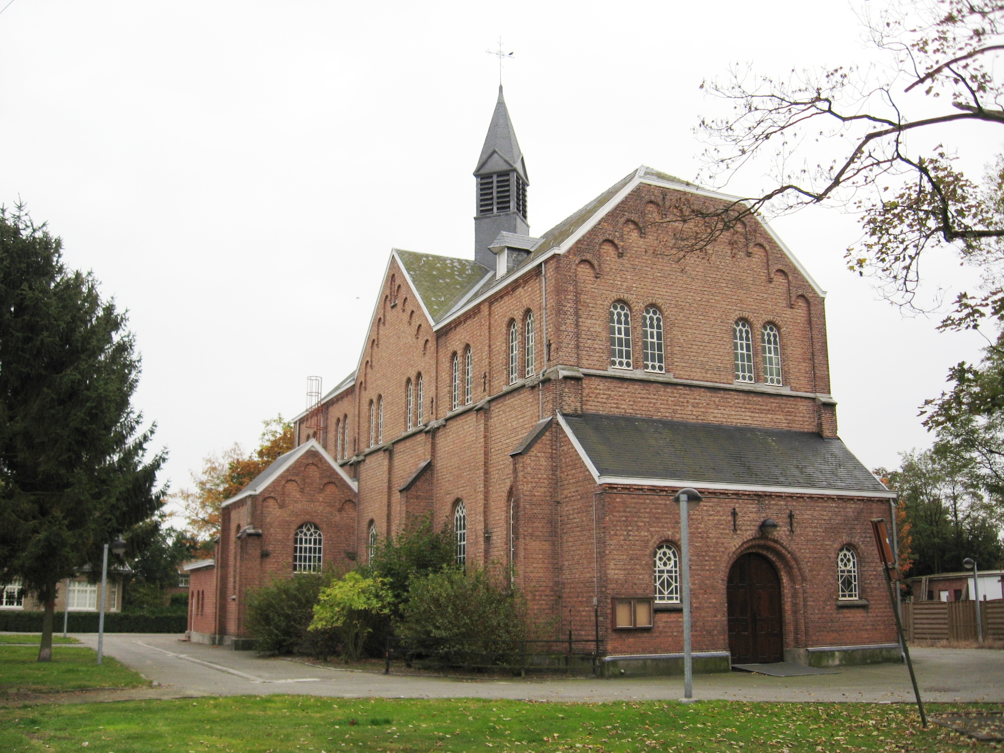 Church of Saint Joseph in Overpelt (Fabriek), Limburg, Belgium